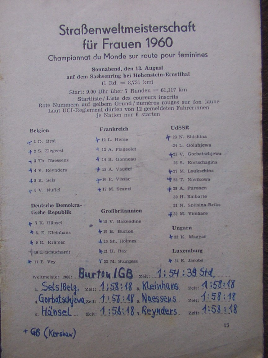 The East German spectator has written the name of the winner in the programme insert - the incomparable Beryl Burton. 7 circuits, 67 kilometers of the hilly Sachsenring circuit. Saturday 13 August 1960 Exactly 1 year to the day, the Berlin wall was erected.